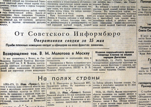 “Sovinformburo last war report”. Sovinformburo last war report of May 15, 1945. It said: "The acceptance of captured German soldiers is over at all the fronts."